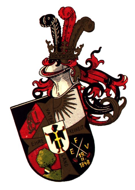 Der Wappen der Münchener Burschenschaft Arminia-Rhenania.